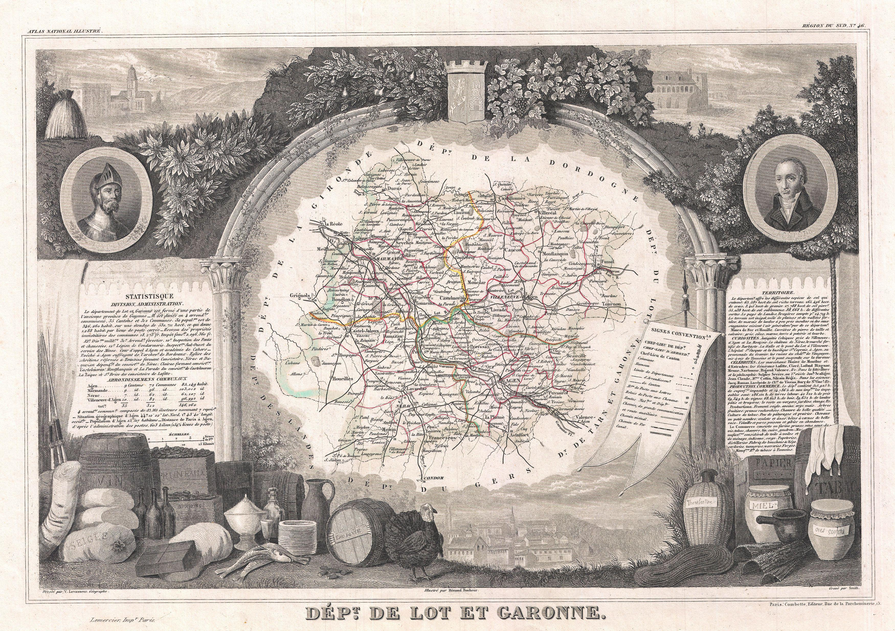 This is a fascinating 1852 map of the French department of Lot et Garonne, France. This area of France is known for its production of Buzet wines and Cabécou d’Antan, small round goat cheese with a fine, creamy texture. The Pilgrimage to Santiago de Compostella also passes through the northern part of this region. The map proper is surrounded by elaborate decorative engravings designed to illustrate both the natural beauty and trade richness of the land. There is a short textual history of the regions depicted on both the left and right sides of the map. Published by V. Levasseur in the 1852 edition of his Atlas National de la France Illustree.